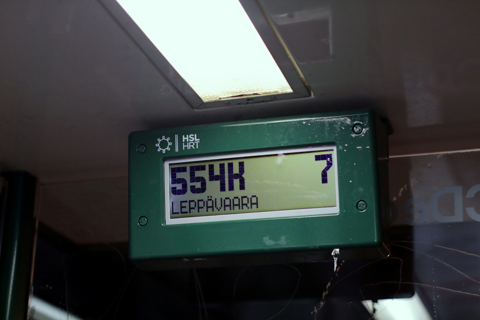 HRT real time bus information display at Syystie bus stop, Helsinki. The display shows the line, its destination (in both Finnish and Swedish) and the predicted departure time.